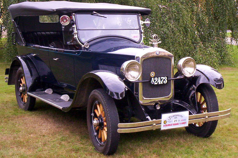 Hupmobile Touring 1924